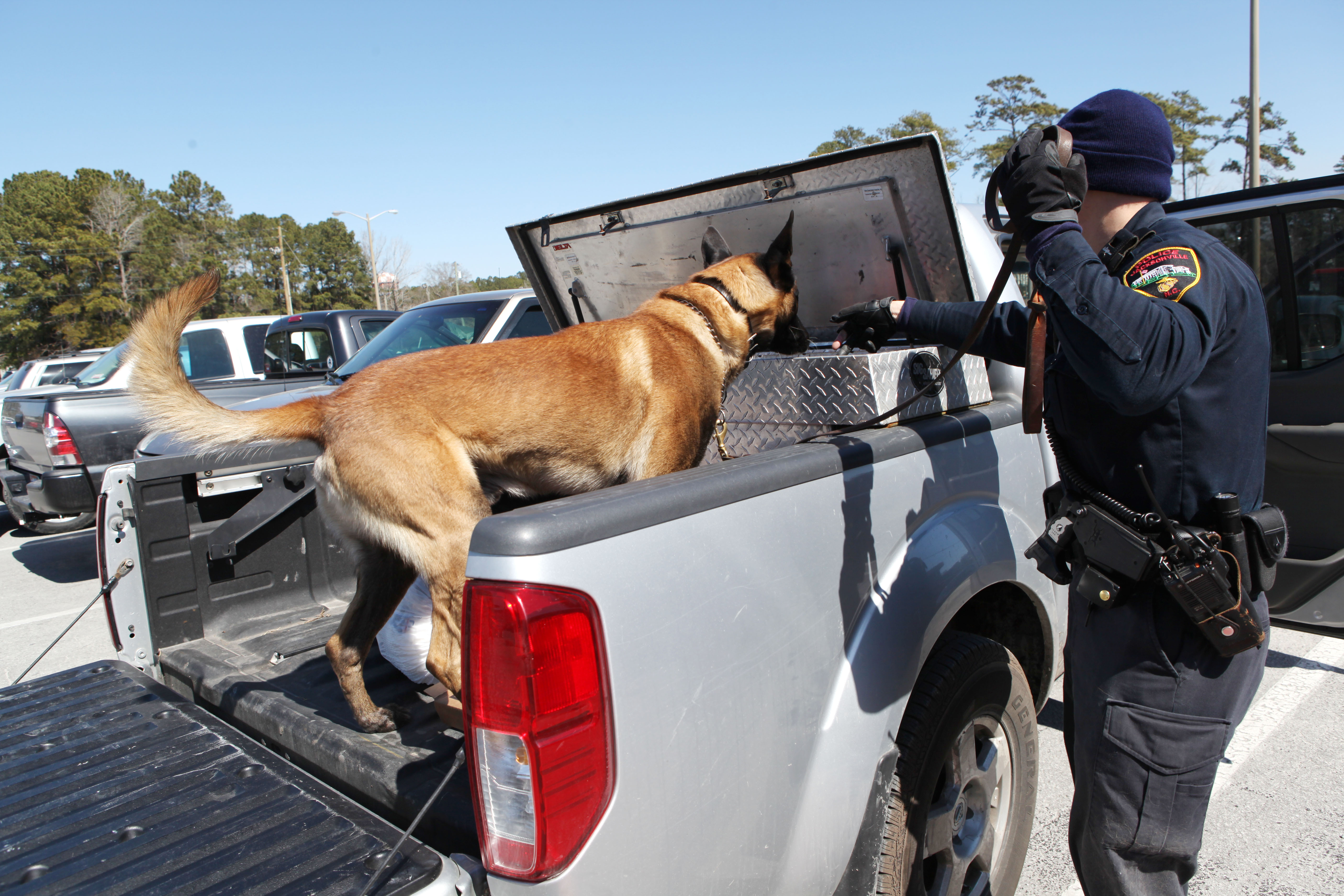 Military working dogs sniffed every nook and cranny of each room, office and common area at the barracks of 8th Engineer Support Battalion aboard Marine Corps Base Camp Lejeune, along with four parking lots and approximately 200 cars while searching for illegal drugs and contraband during a health-and-comfort inspection March 4. Law Enforcement assets, such as the military working dogs, offered an advantage to the inspections. The dogs have at a minimum a 90 percent accuracy rate when seeking narcotics and many are even more proficient. Unit: Marine Corps Base Camp Lejeune DVIDS Tags: inspection; arrest; Camp Lejeune; health-and-comfort